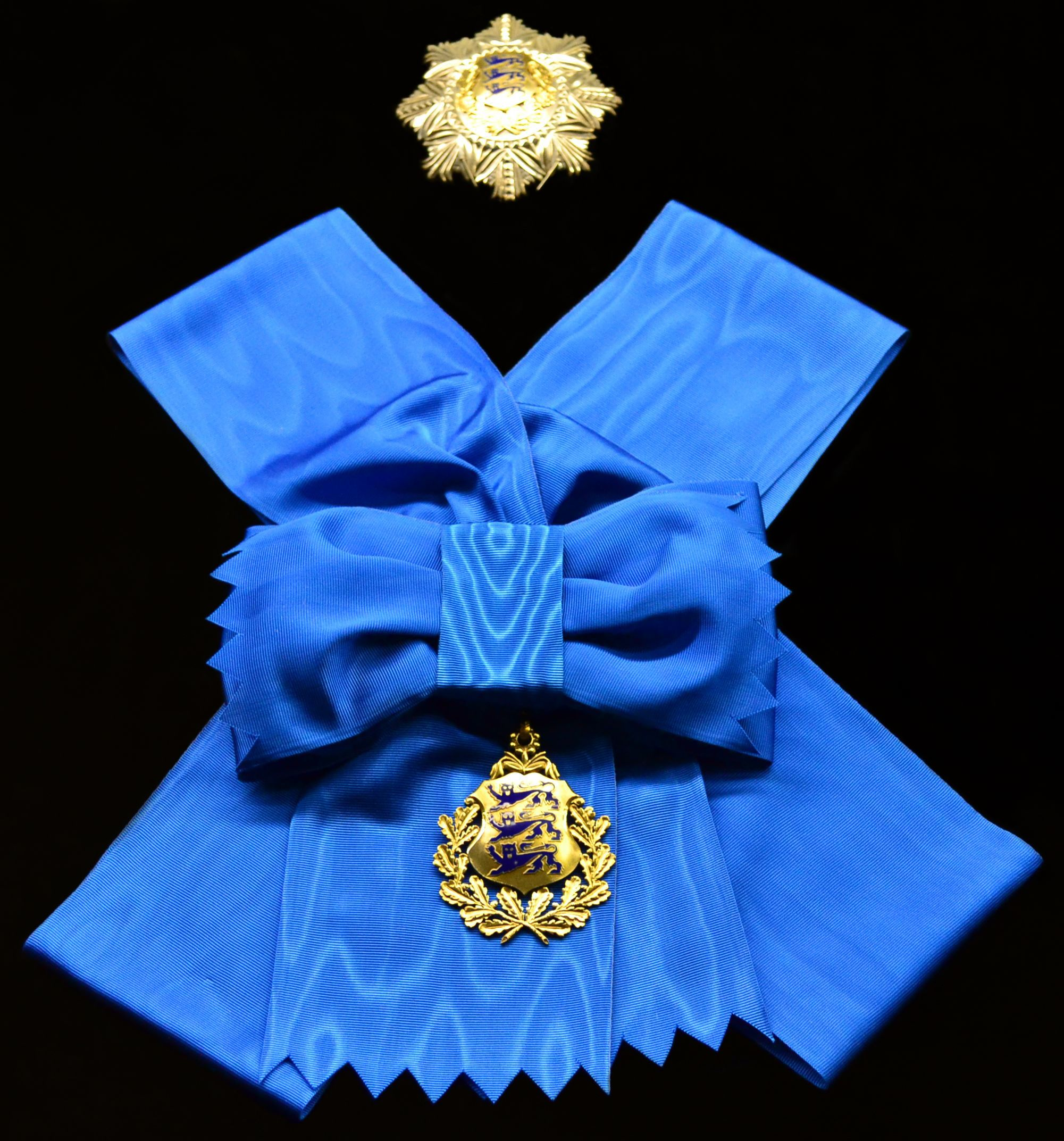 Estonia. Order of the National Coat of Arms 1st class, badge, breaststar and sash. The exhibition of the Estonian State Decorations at the National Library of Estonia in Tallinn.